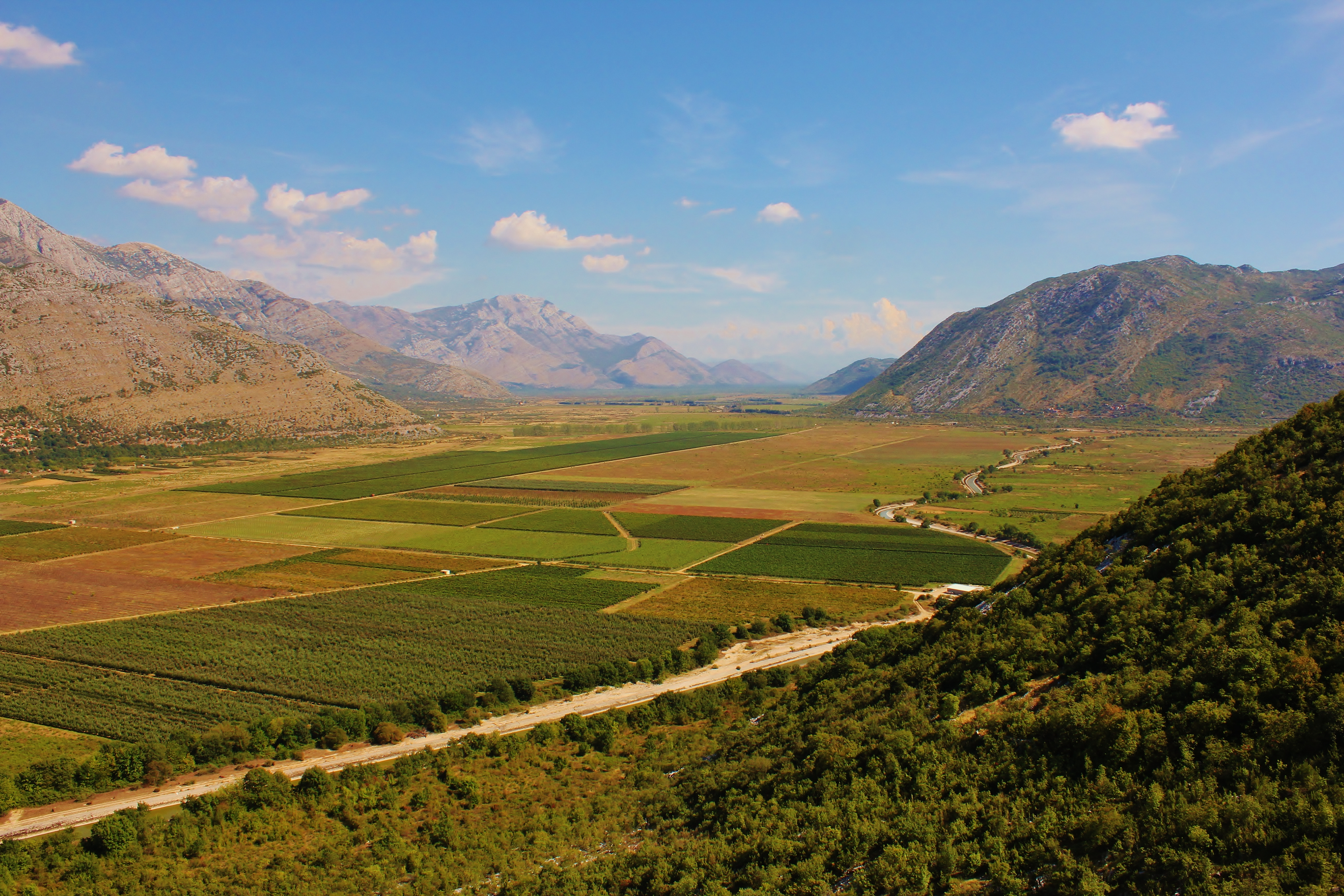 with 35km very long Karst field (polje) in Bosnia and Herzegovina